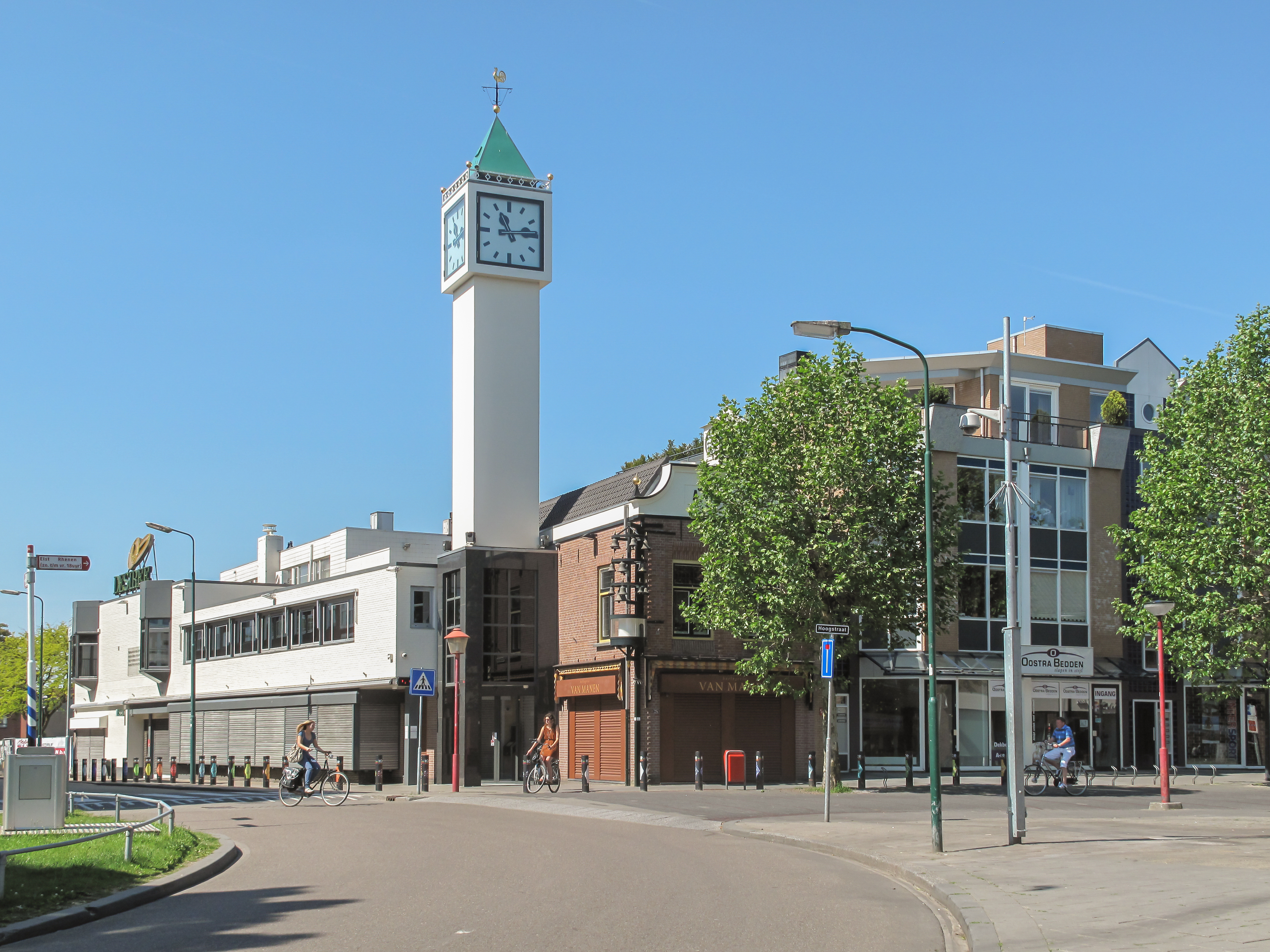 Veenendaal, view to a street with a modern tower, Juwelry shop Van Manen is well known to many inhabitants of Veenendaal.